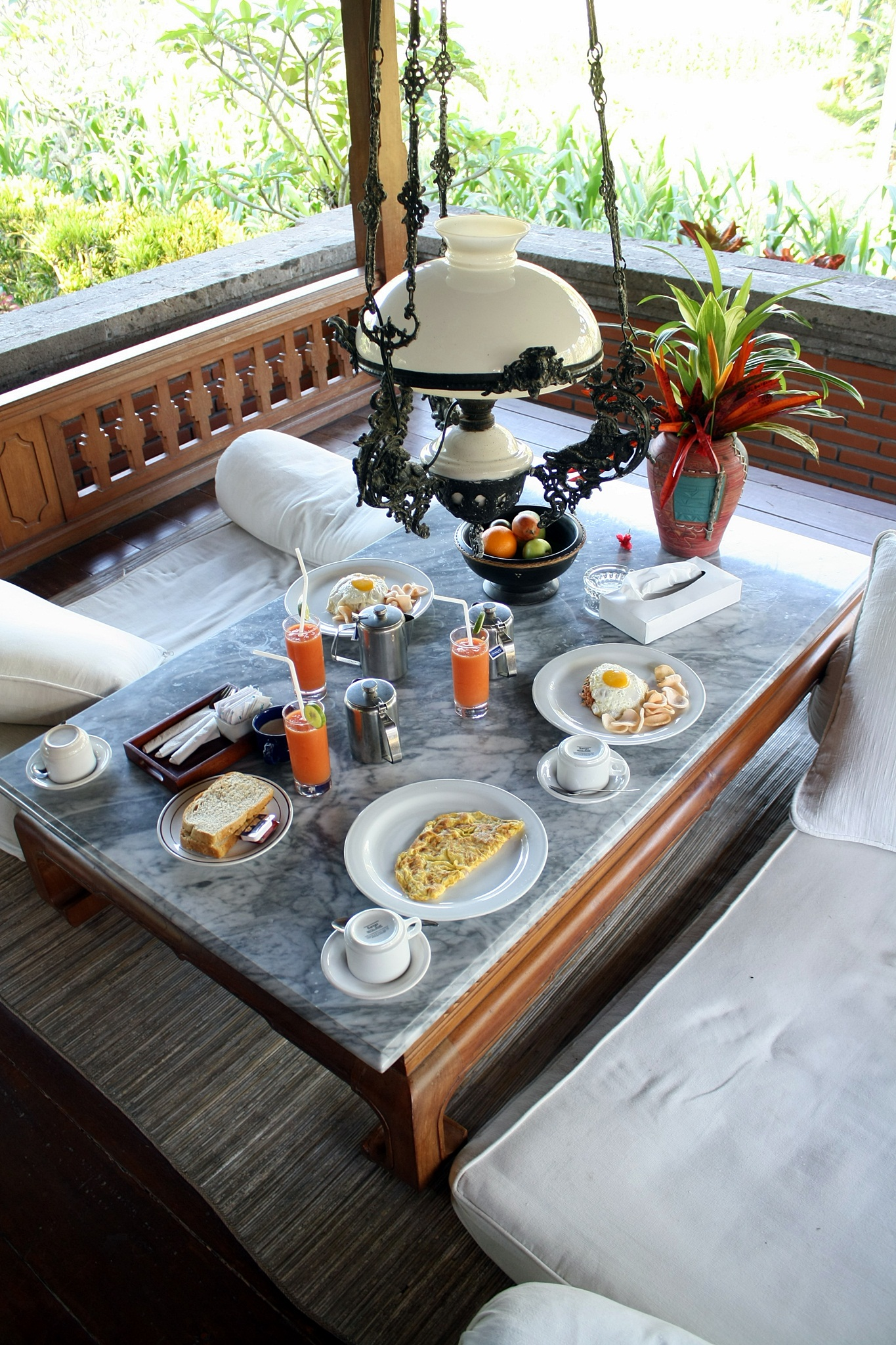 A typical breakfast in Indonesia, Nasi Goreng, omelette, bread, and fruit juice